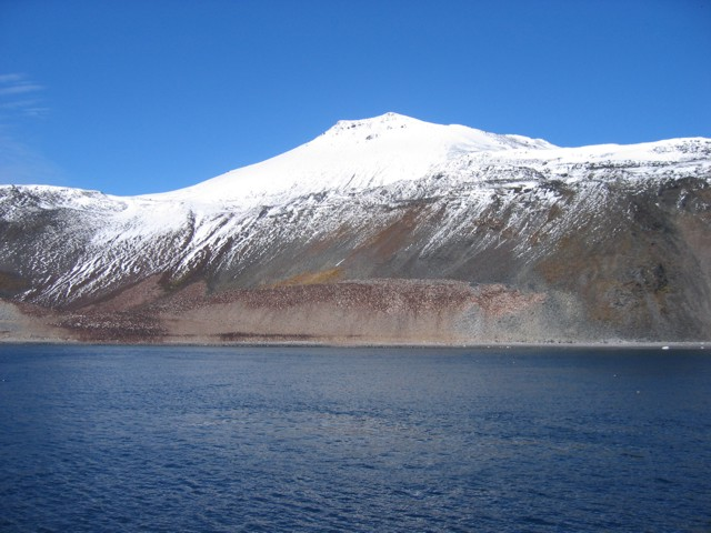 Paulet Volcano. Antarctica. 2007.